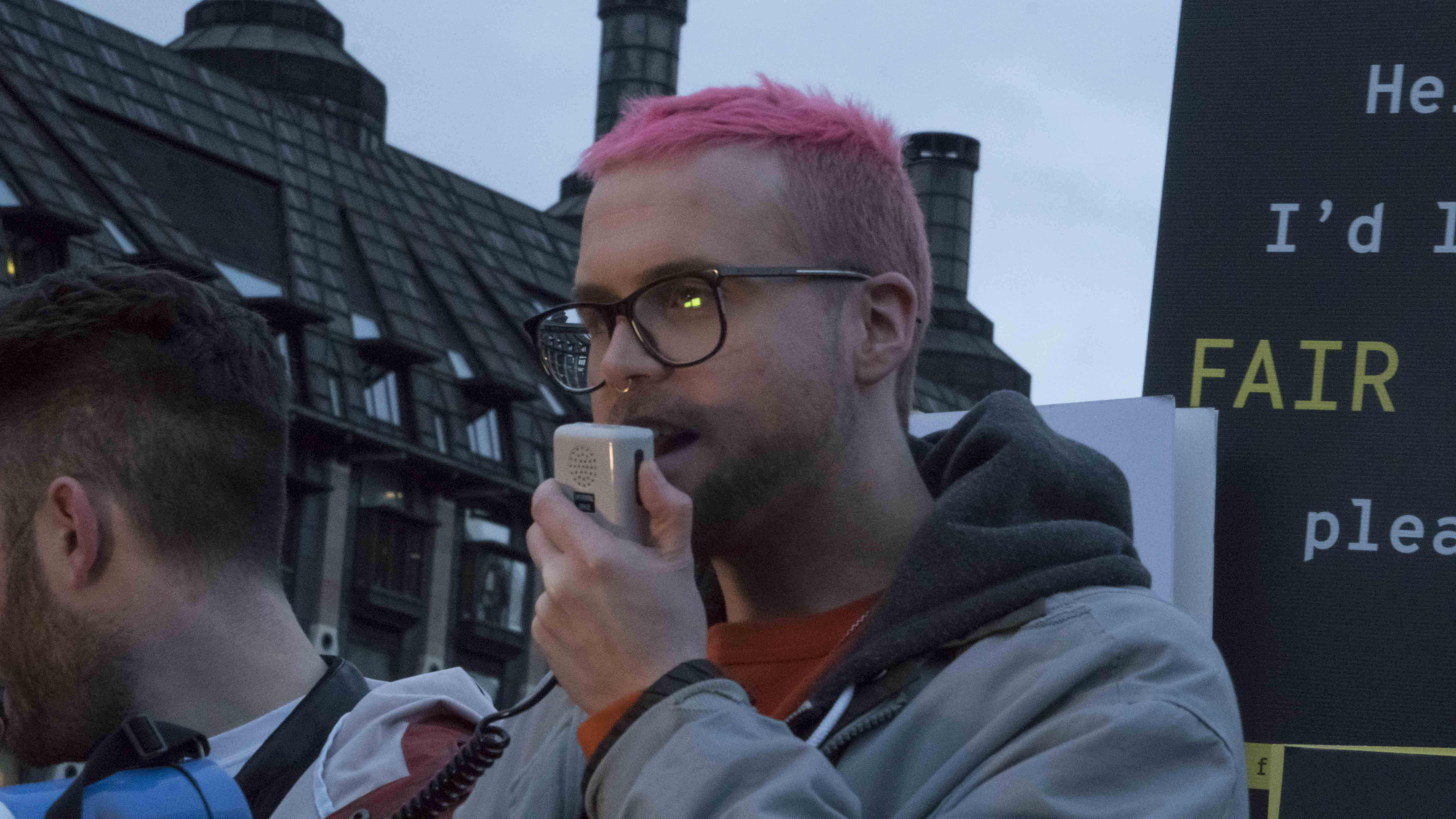 A protest following the Cambridge Analytics and Facebook data scandal with Christopher Wylie and Shahmir Sanni.